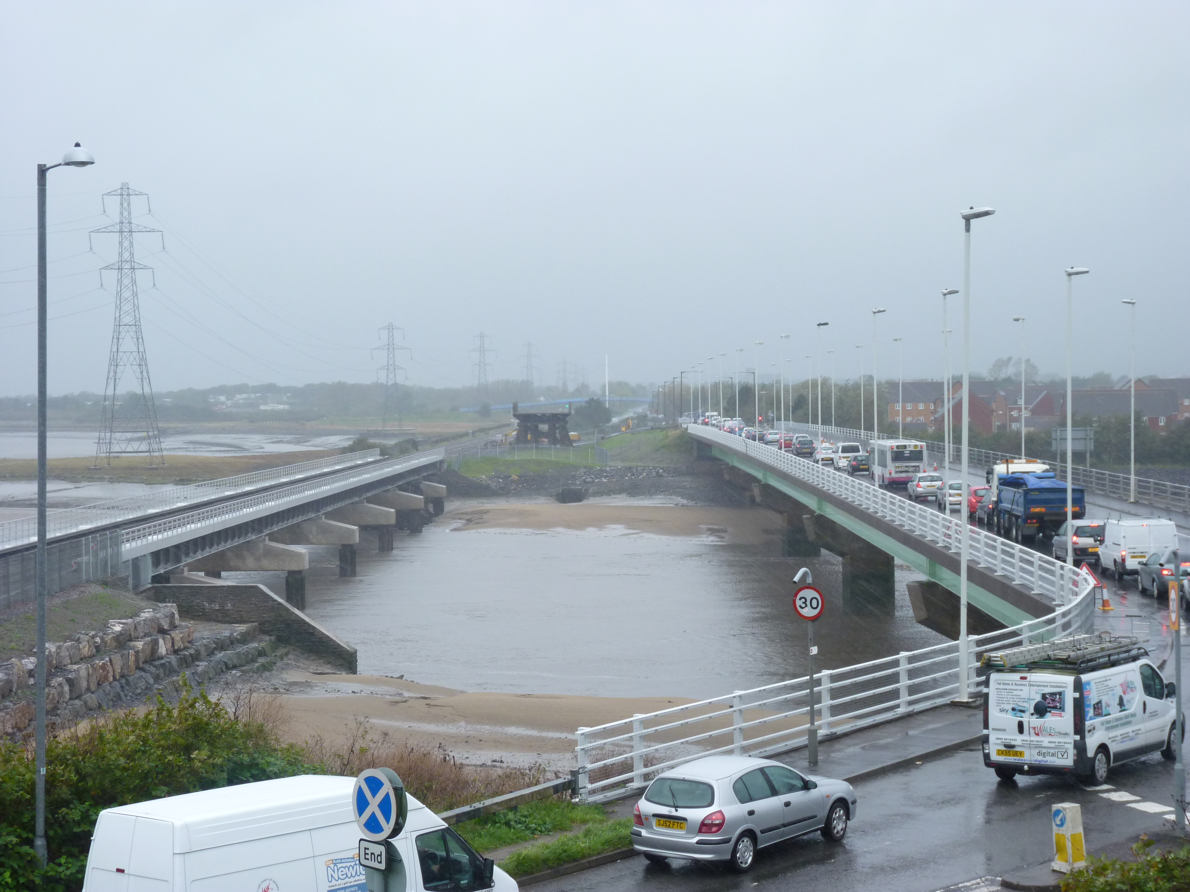 Road and rail bridges across the Loughor Estuary, linking Swansea county borough with Carmarthenshire.